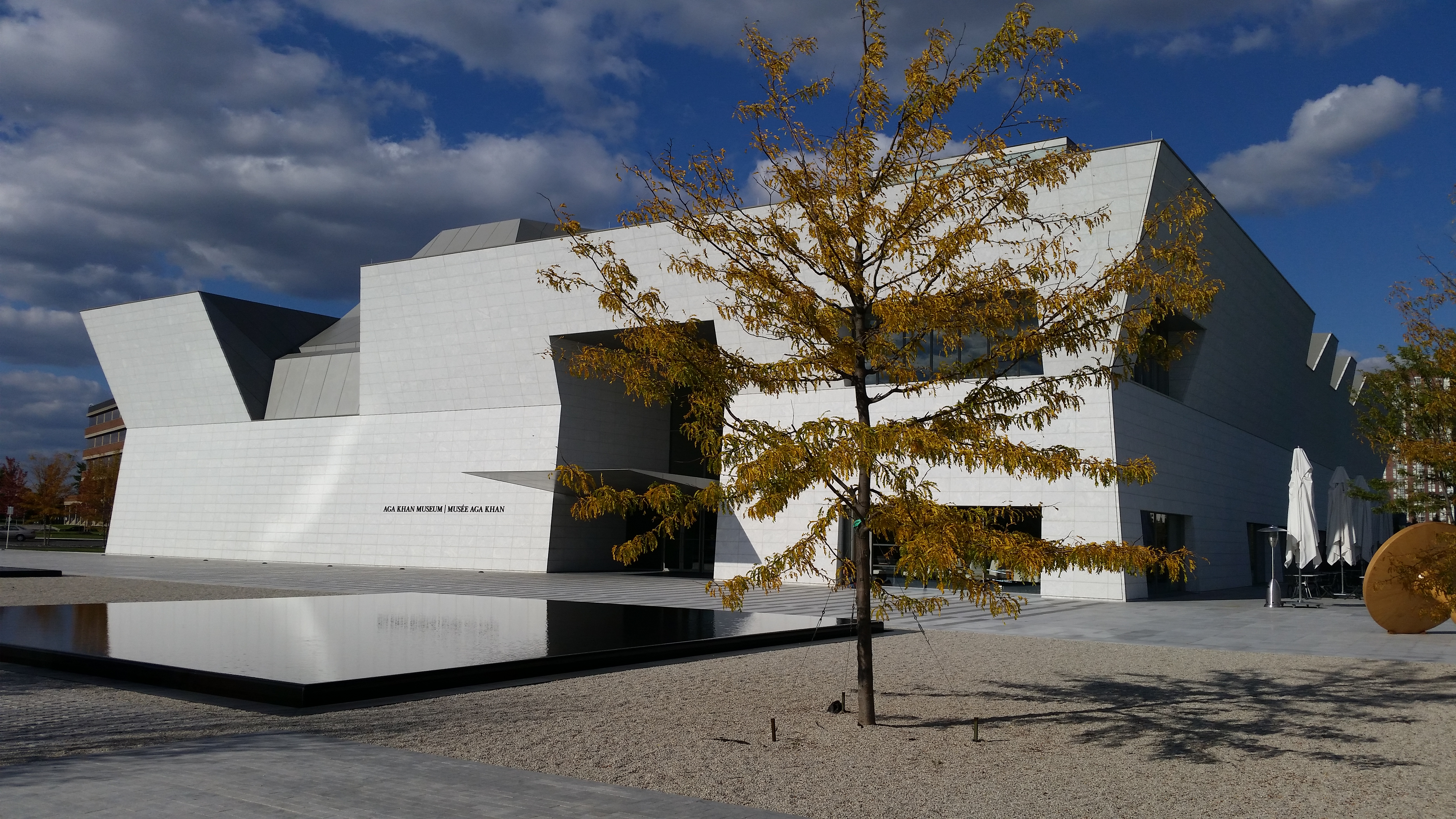 Aga Khan Museum in Toronto: Exterior shot. The museum opened to the public in September 2014